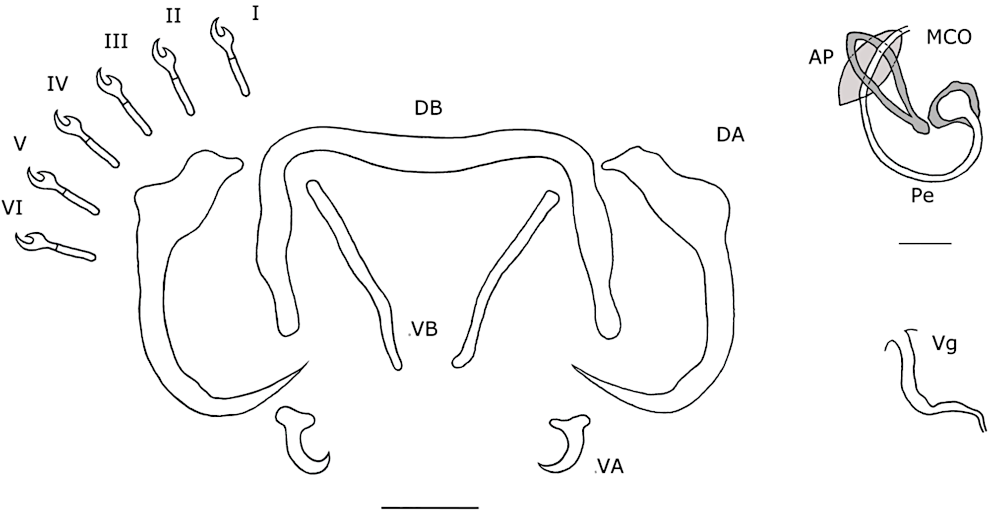 Figure 11 of paper Haptoral and genital hard parts of Onchobdella ximenae n. sp. from Hemichromis elongatus. Accessory piece of the MCO in grey, to highlight the plate-like structure of the accessory piece. I-VI, hooks; AP, accessory piece; DA, dorsal anchors; DB, dorsal transverse bar; MCO, male copulatory organ; Pe, penis; VA, ventral anchors; VB, ventral transverse bars; Vg, vagina. Scale bar: 20 μm, scale bar of the MCO 10 μm.